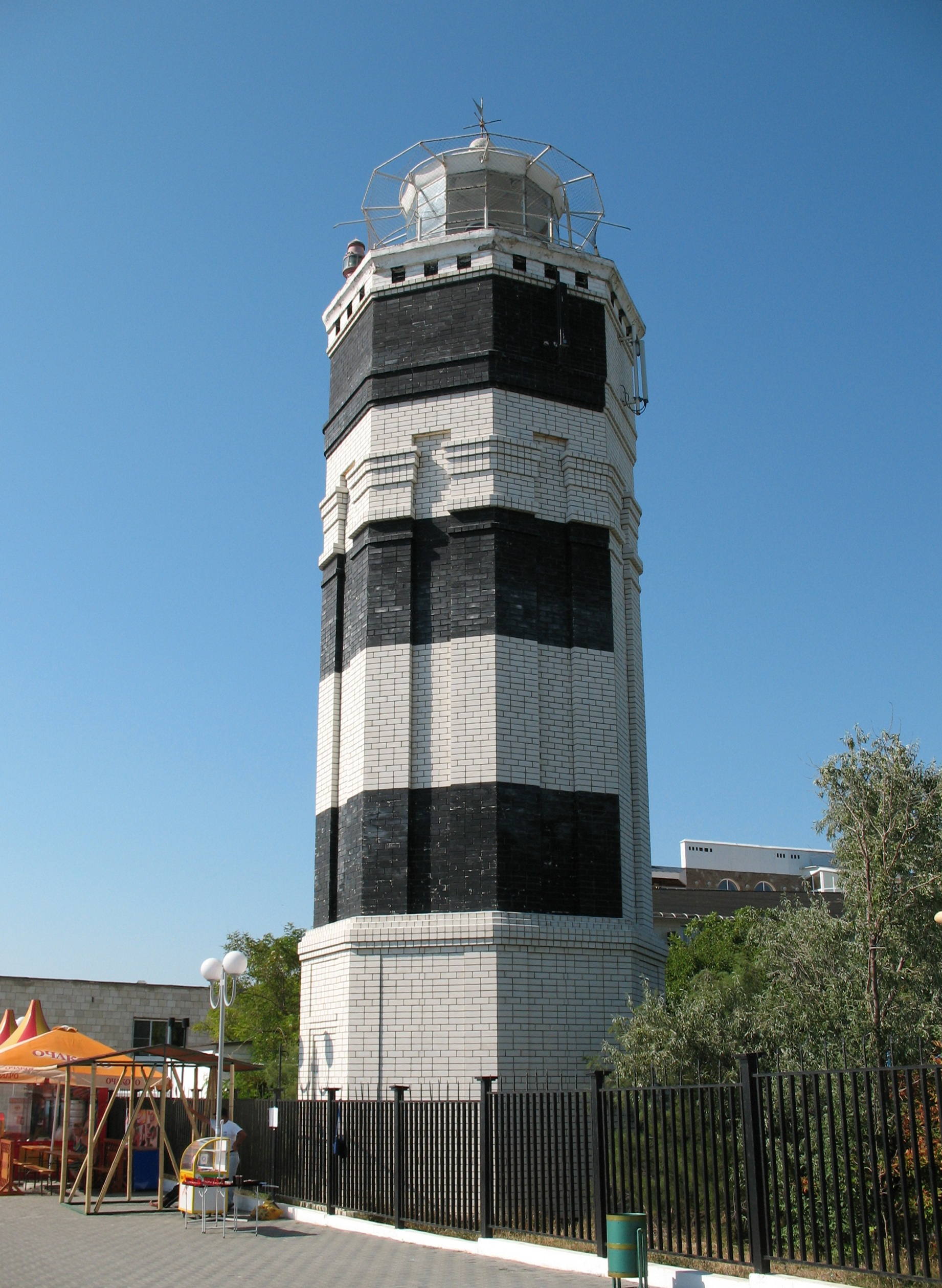 Anapa. Lighthouse